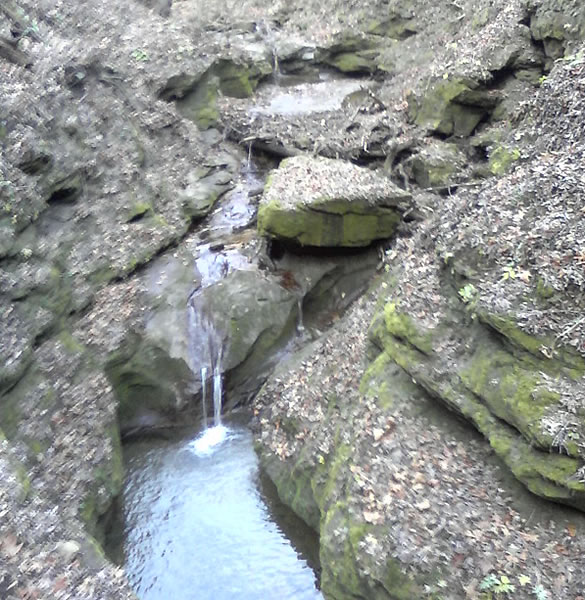 Small waterfall and gorge at Woodman Hollow State Preserve near Coalville, IA.